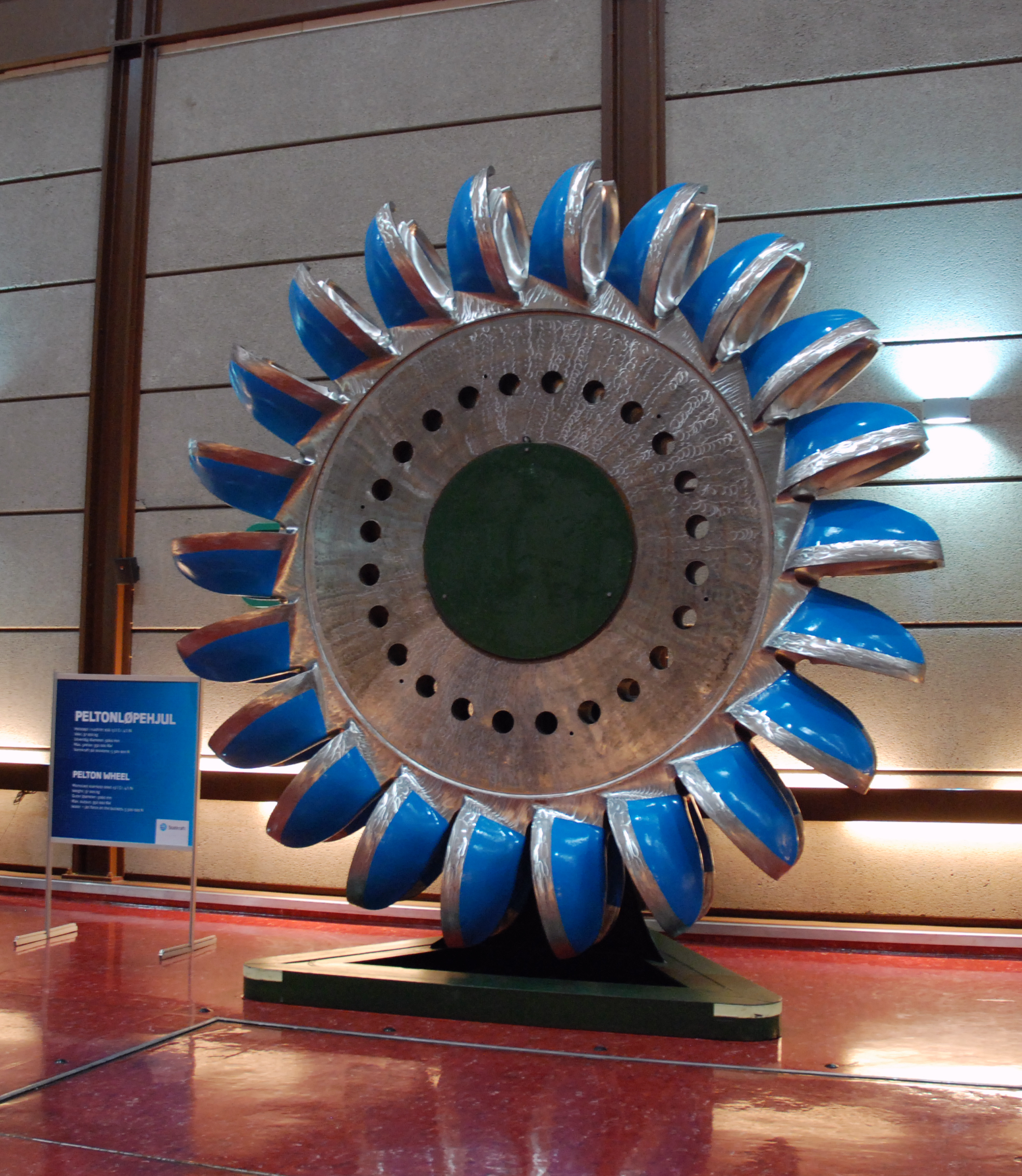 Spare pelton wheel at Sima power plant in Eidfjord, Hordaland. Monocast stainless steel 13% Cr. 4% Ni. Weight: 37 000 kg. Outer diameter: 5060 mm. Max. output: 350 000 KW. Water - jet force on the buckets: 5 500 000 N